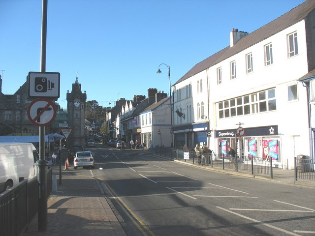 Llangefni town centre The town clock can be seen on the right.